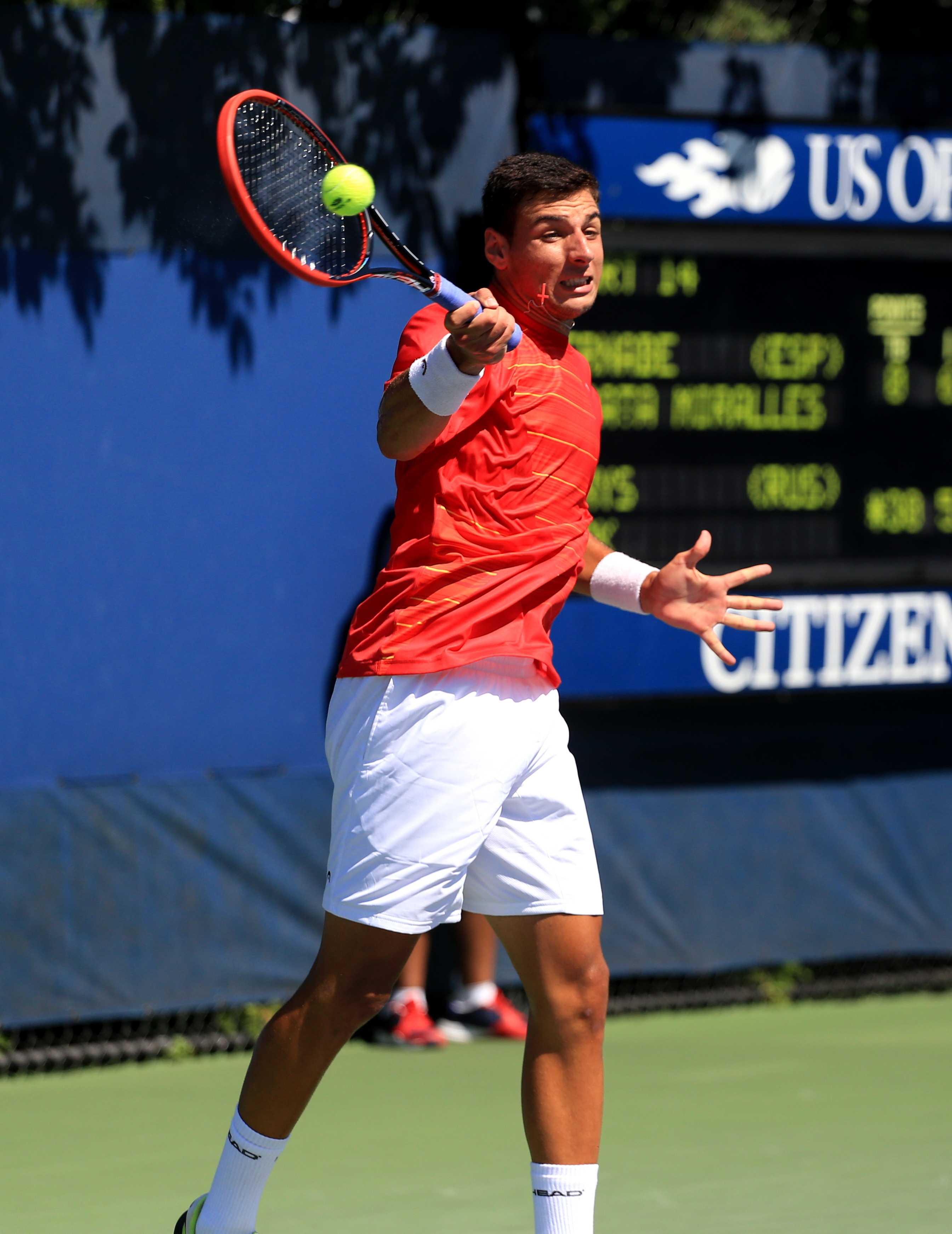 Bernabé Zapata at the 2015 US Junior Open